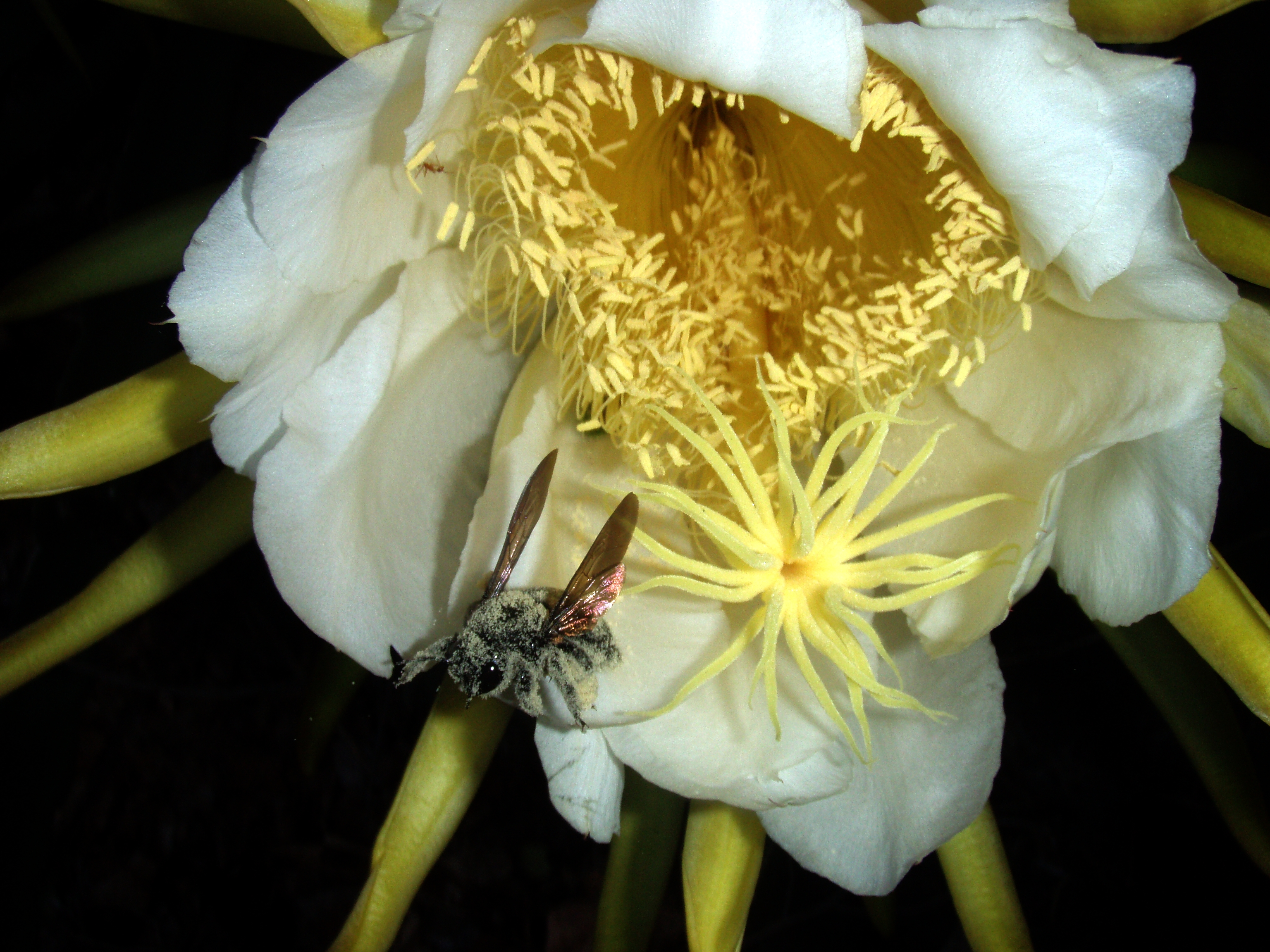 Female Xylocopa with pollen collected from Night-blooming cereus, paniniokapunahoa, papipi pua (Cactaceae)